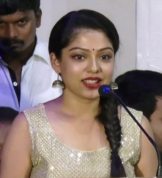 Varsha Bollamma at 'Seemadurai' audio launch